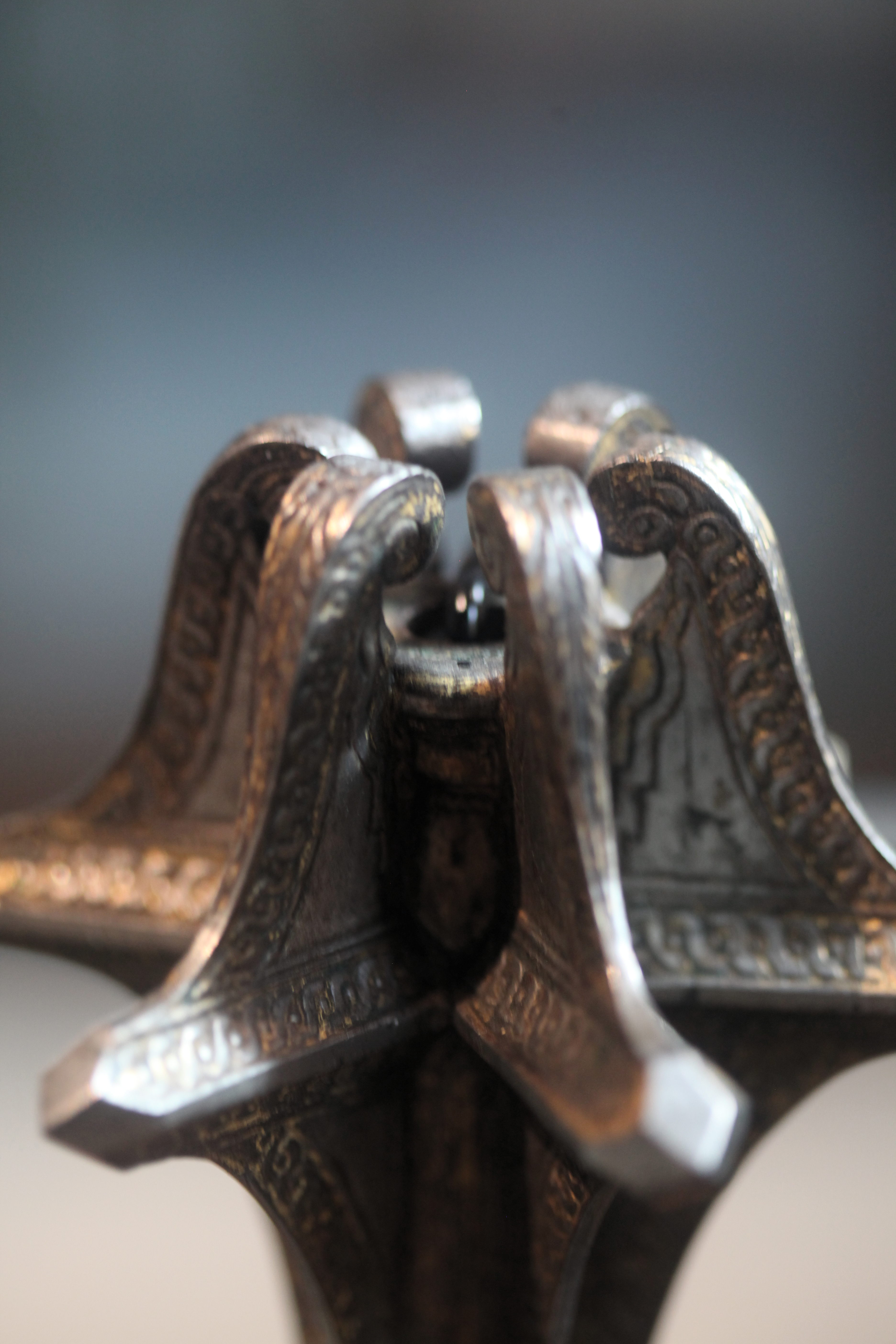 Mace-pistol, example of a combination weapon. The central cylinder of the mace contains a wheelock mechanism, with the spring in the handle and muzzle at the tip of the weapon. French production, collection of the Crown, 1673, no 279